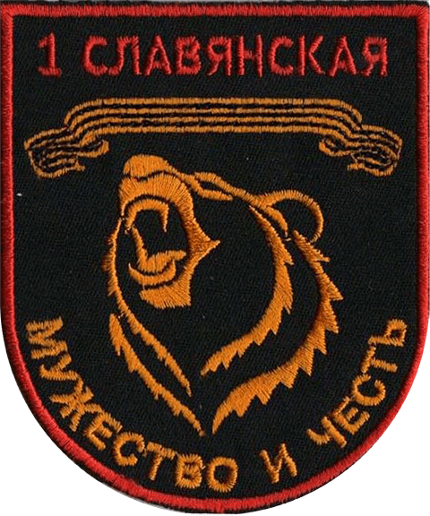 Shoulder sleeve insignia of the DPR 1st Slavyansk Brigade (also spelled as Sloviansk). In 2016, new ones included the colors red and black.